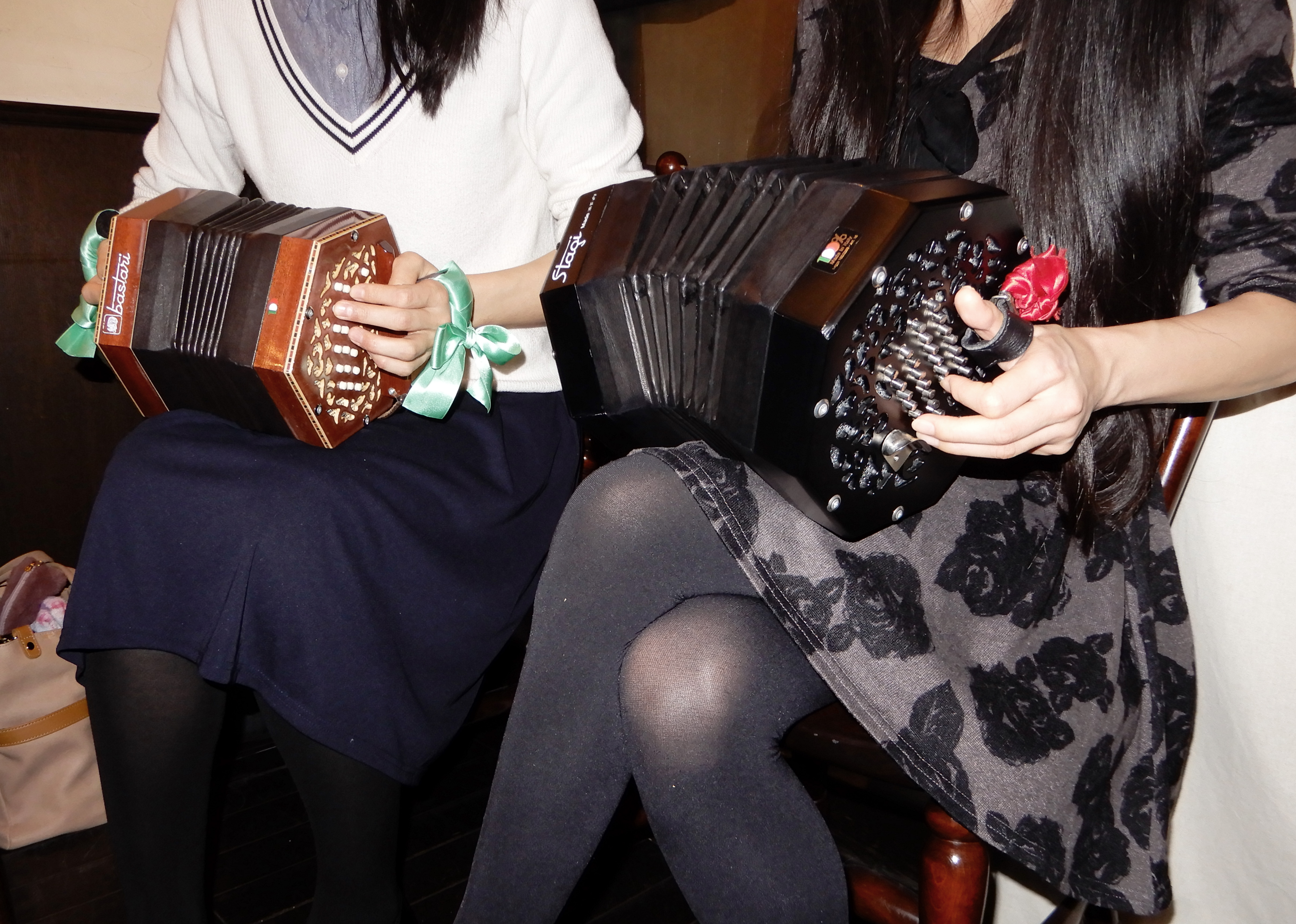 Two concertinists Ryoko and Merumo are playing the 40-key Anglo concertina and 56-key English concertina respectively.This photo was taken at the monthly event entitled BANDONEON TOMO NO KAI (Meeting of Bandoneons' Friends) which is held at the cafe HOMERI, 2f., BOW Building, San'ei-cho 25-33, Shinjuku City, Tokyo.